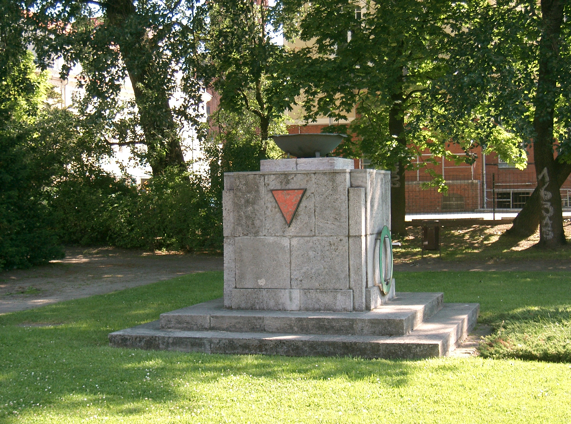 Memorial for the victims of fascism in Bernau bei Berlin.